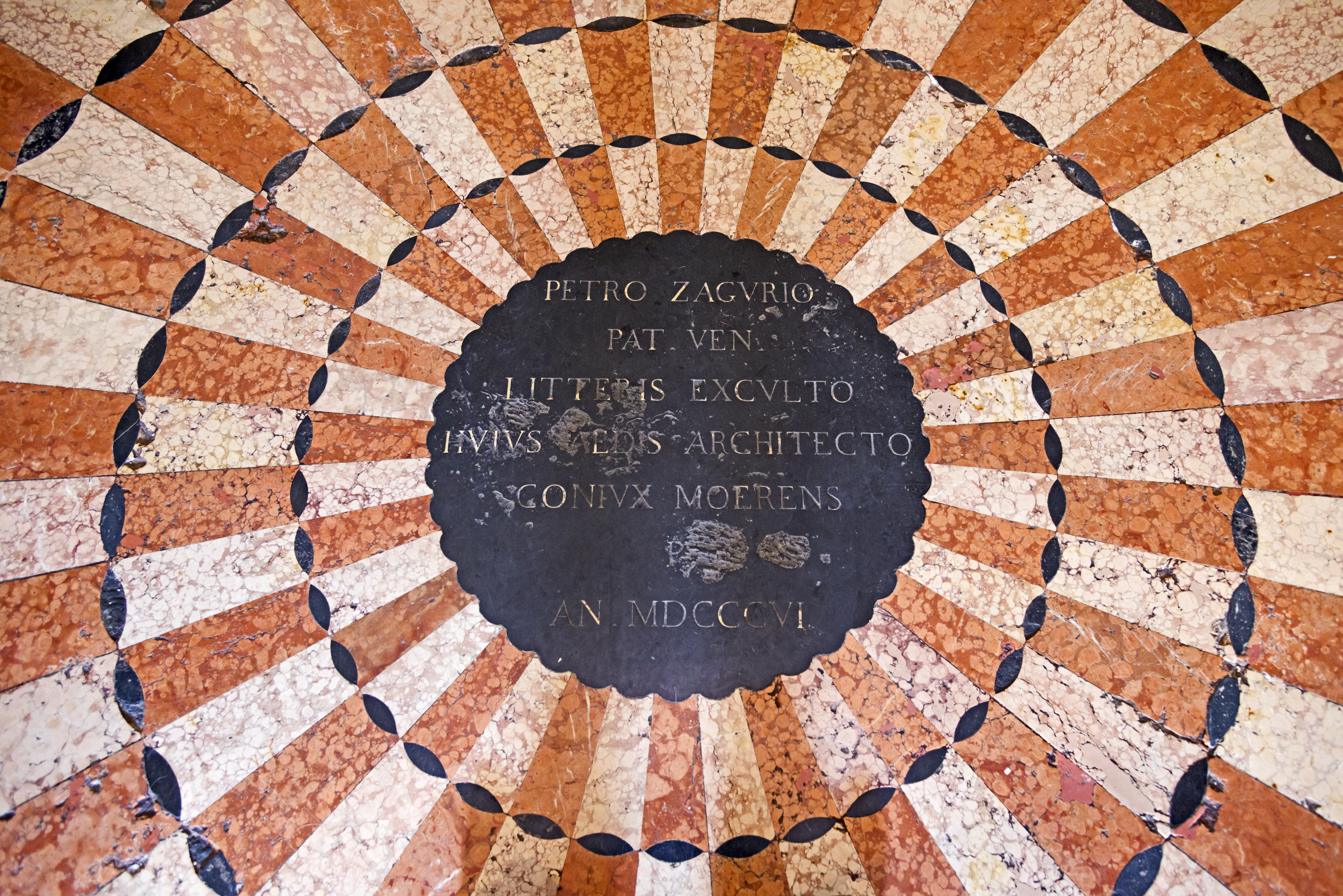 Church San Maurizio today Museo della musica in Venice. High altar. The tomb of "Pietro Antonio Zaguri" in the center of the nave.